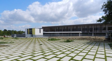 Collège Agnès Varda